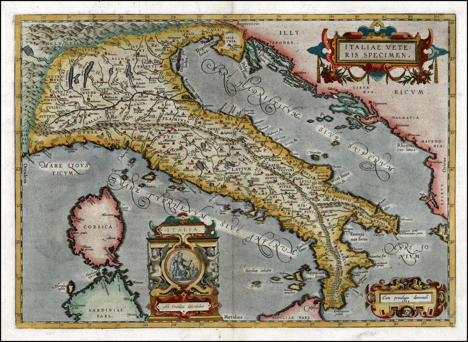 Old map of Italy, 1584